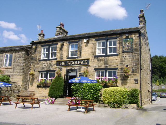 The Woolpack, Esholt. This pub once was used for the filming of the Woolpack Pub in Emmerdale,It now goes by the same name, it was previously called The Navigation